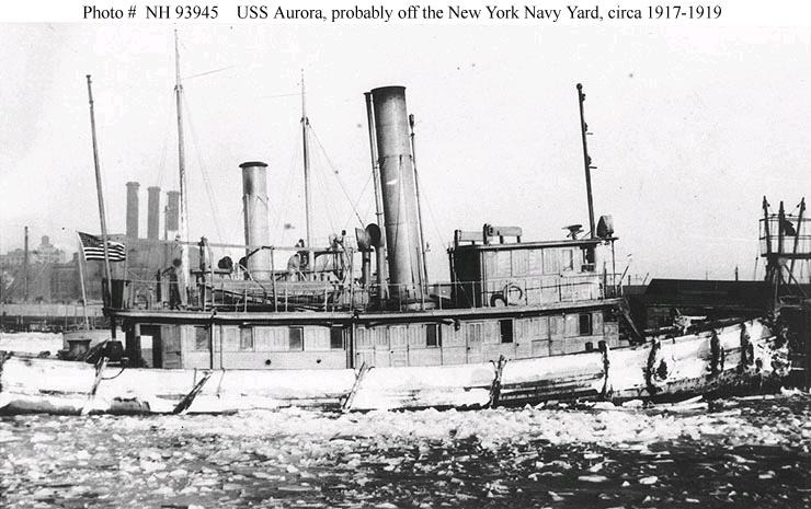 From the United States Navy Historical Center.